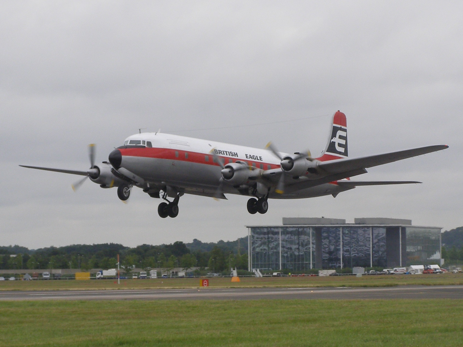 Douglas DC-6A registered G-APSA painted in British Eagle colour scheme in 2008 at Farnborough Airshow 2008